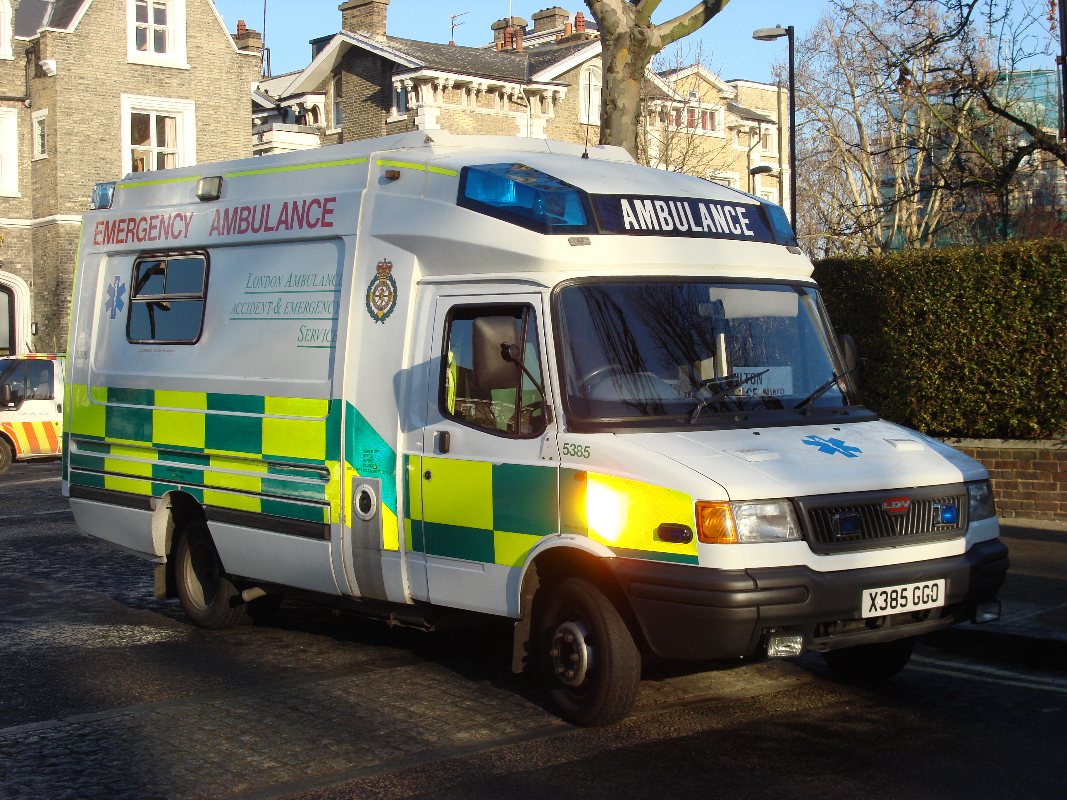 London Ambulance on Hamilton Terrace